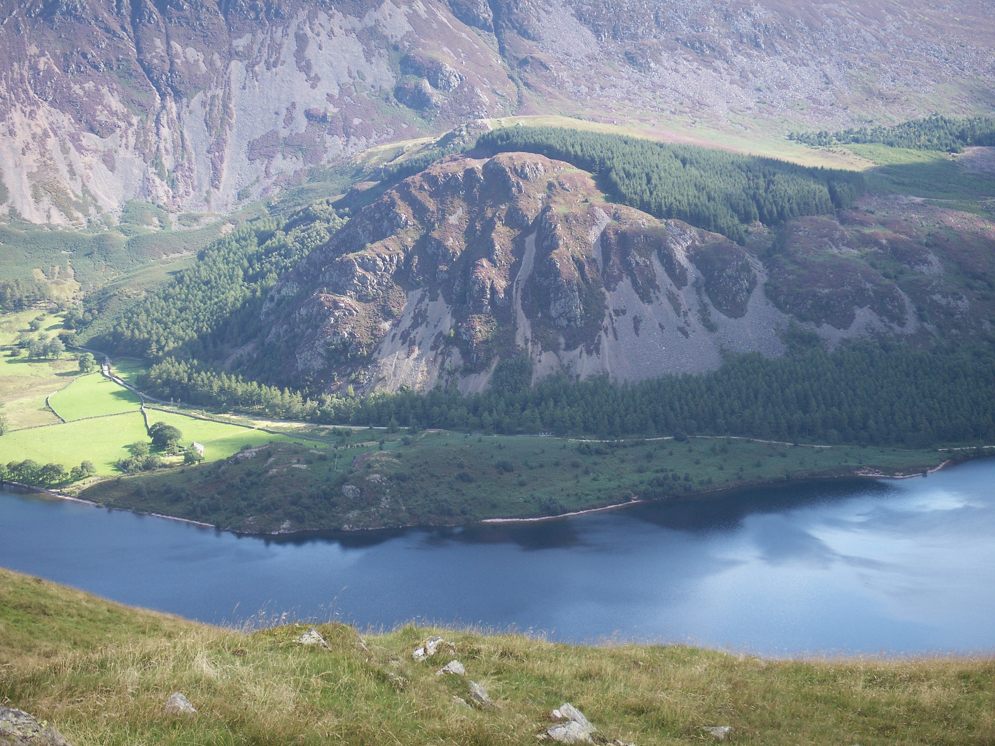 The subsidiary top of Bowness Knott on Great Borne. Viewed across Ennerdale Water from the summit of Crag Fell. English Lake District. Own photo.